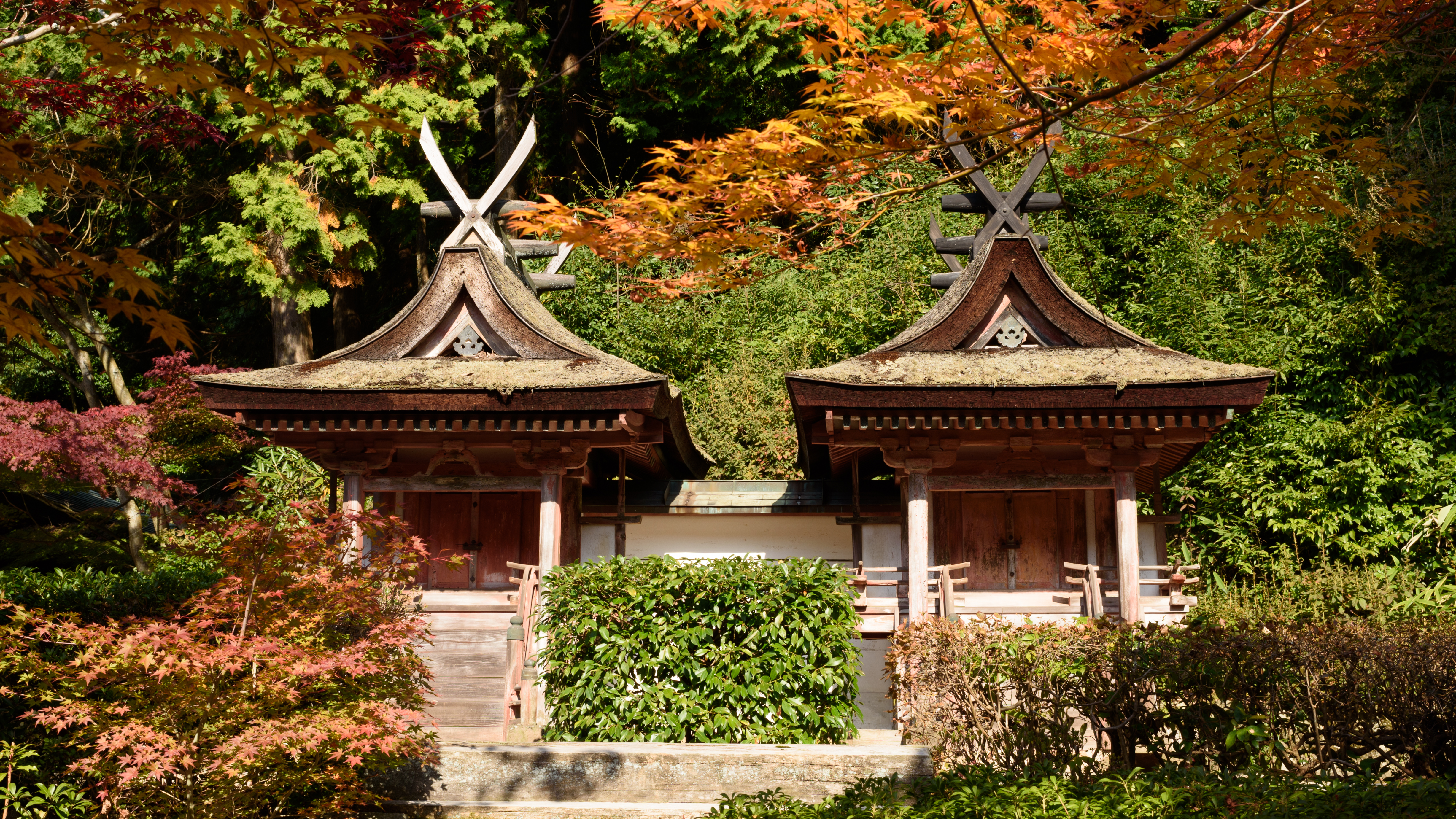 Enjoji Kasuga-do, Hakusan-do (National Treasures of Japan)